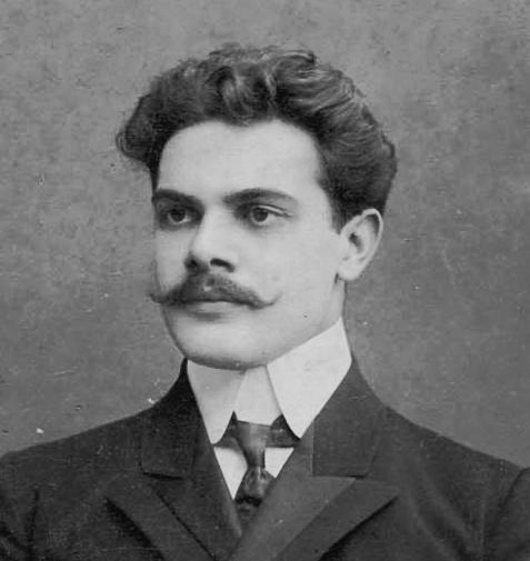 Simeon Murafa, Romanian activist in Bessarabia. The original photo is inscribed with the words: Simeon Murafa (Soroca). Naţionalist basarabean. † 1917 ("Simeon Murafa (Soroca). Bessarabian Nationalist. Died 1917").